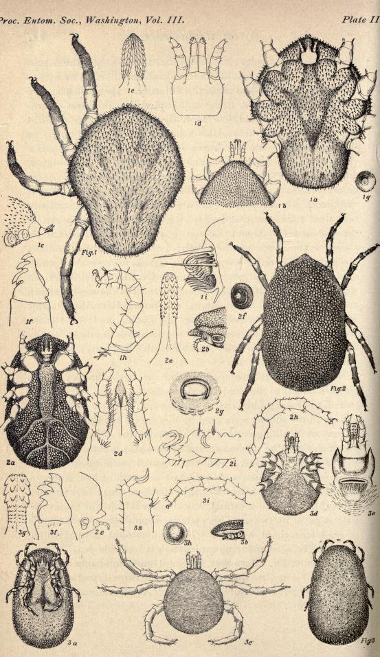 Illustrations of ticks (Ixodida) by George Marx